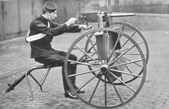 Maxim machine gun mounted on a Dundonald gun carriage